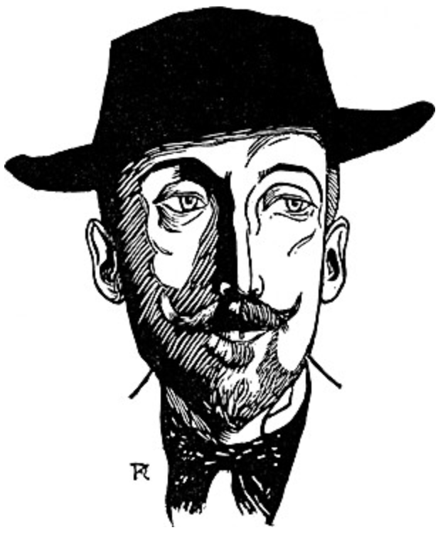 Woodcut of Viggo Stuckenberg before 1898 by Kristian Kongstad, 1867-1929 − In C.E. Jensen : Vore Dages Digtere, Kbh. Det nordiske Forlag, 1898.